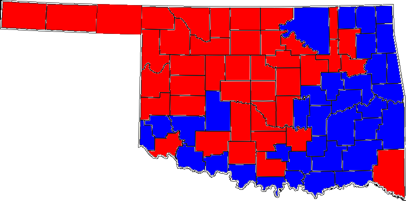 2004 US Senate election in Oklahoma results by county.